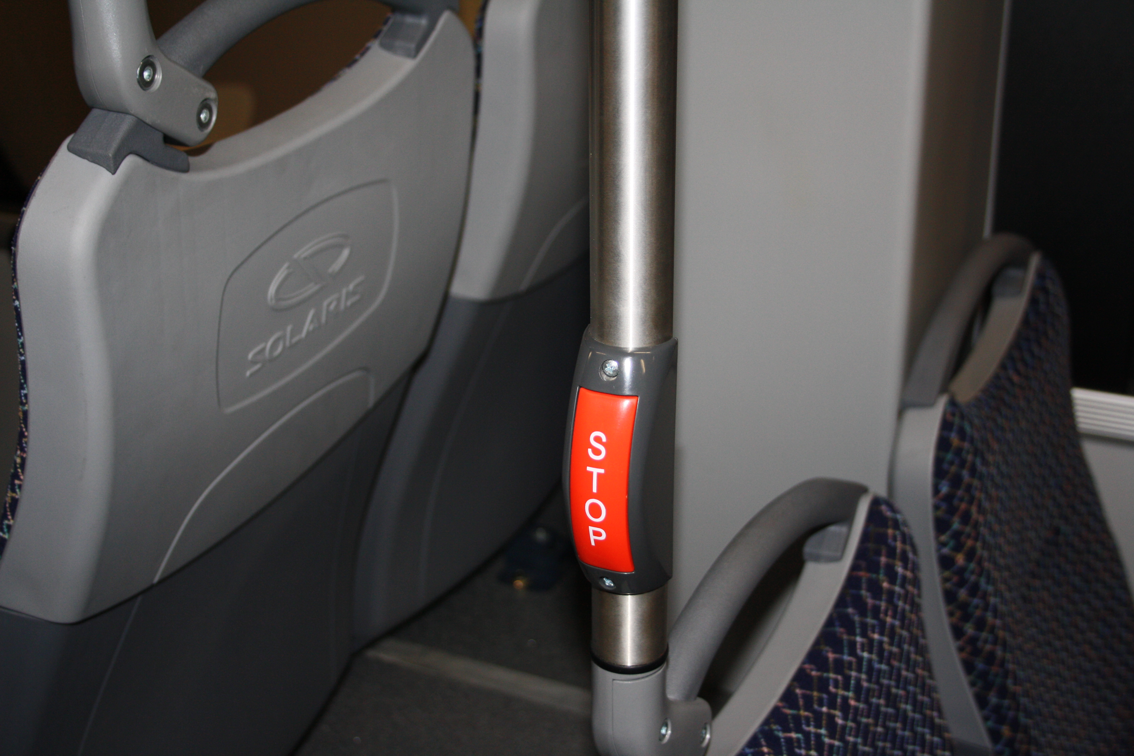 Push button (Solaris)